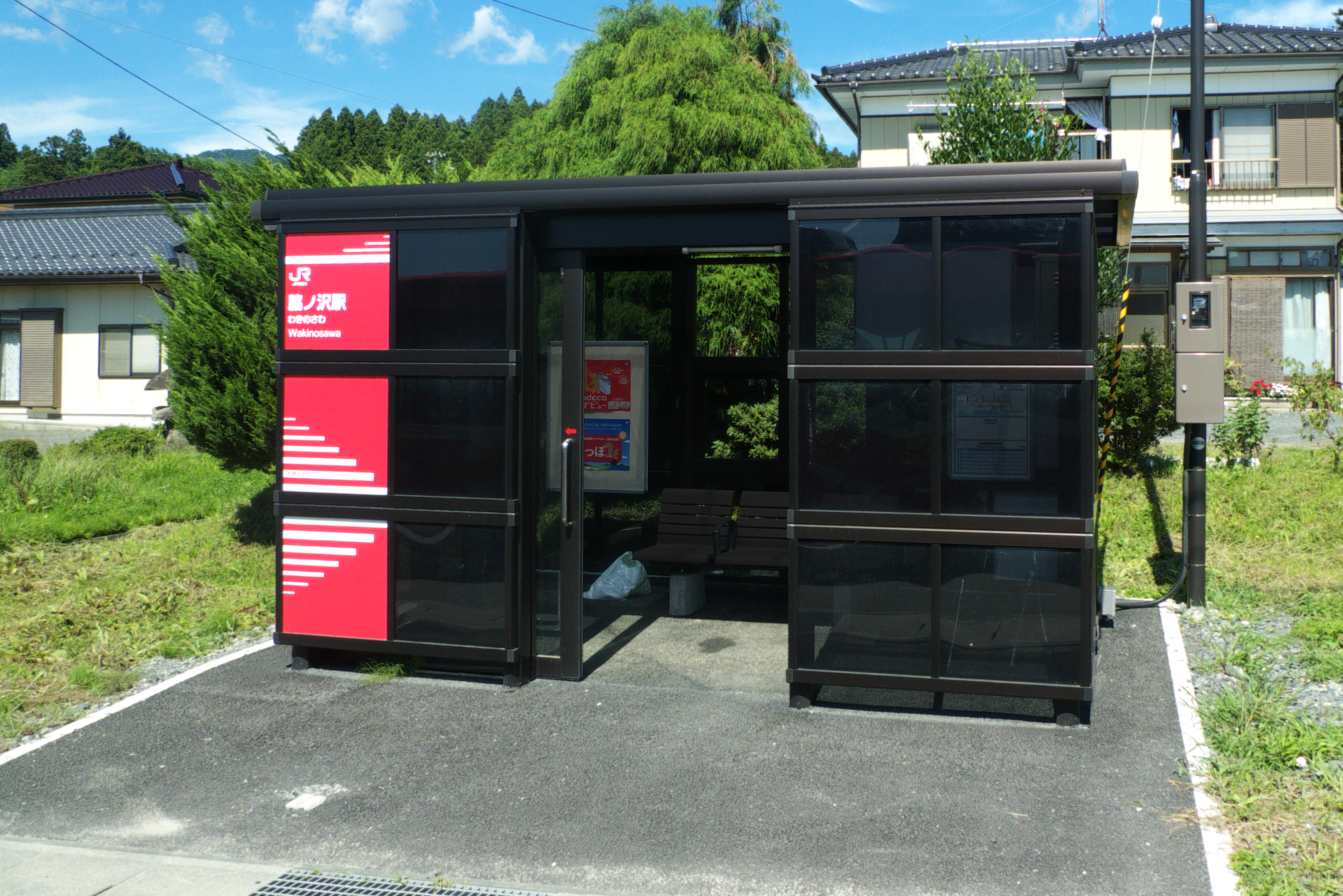 JR East Ofunato Line BRT Wakinosawa Station